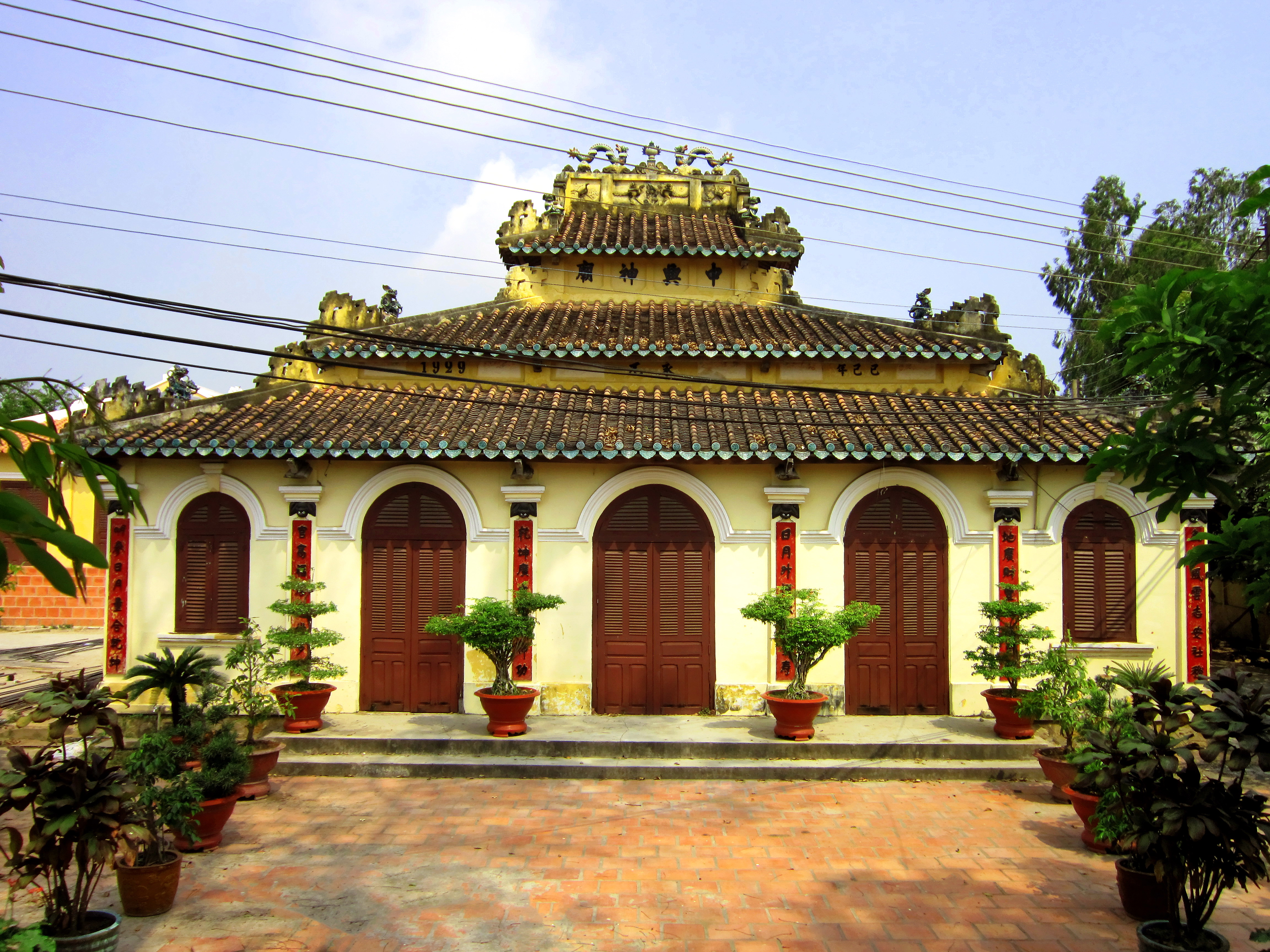 Mặt tiền đình Vĩnh Ngươn ở TP Châu Đốc, tỉnh An Giang, Việt Nam.